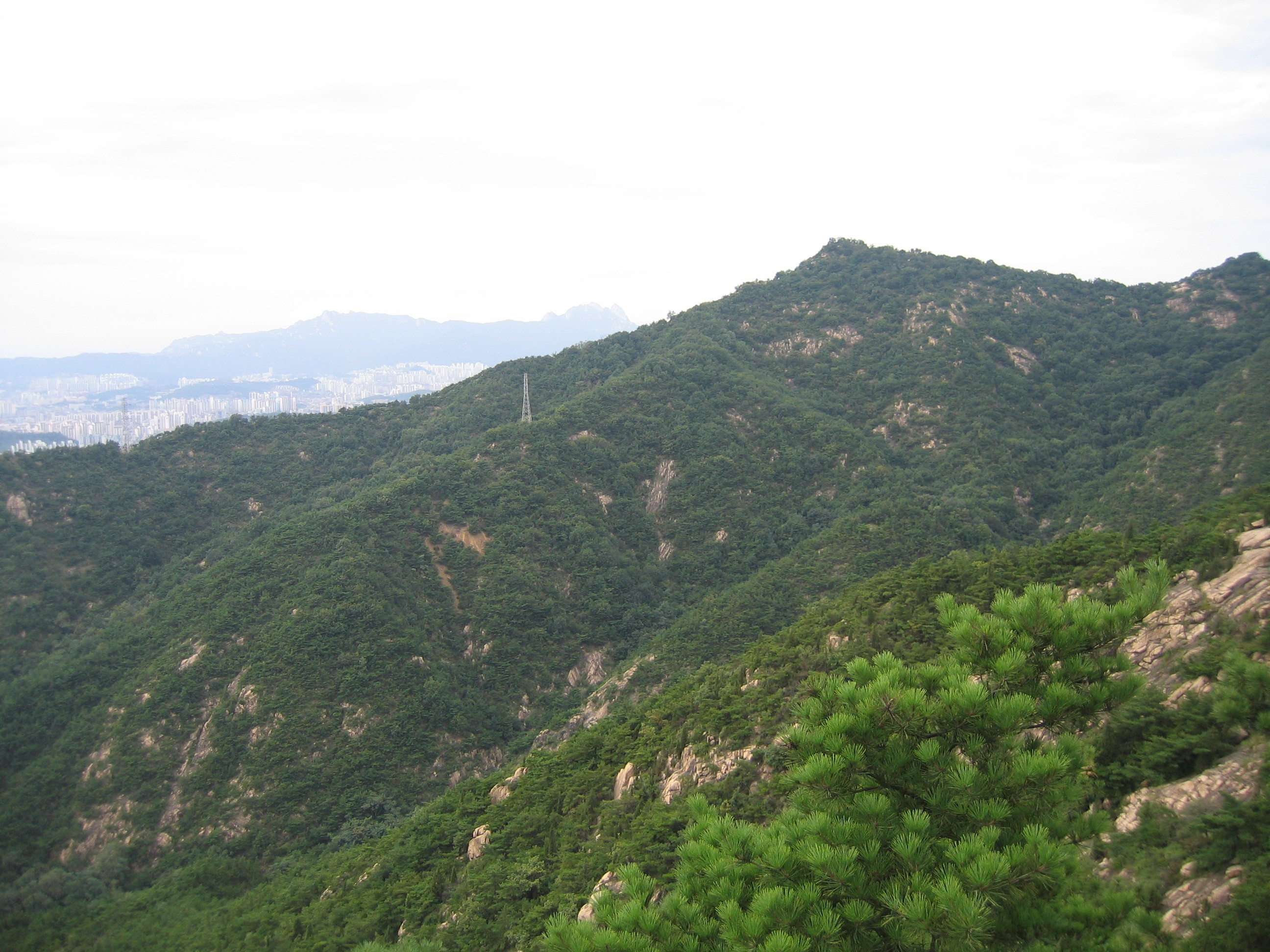 Mt. Acha (Achasan), Seoul, Korea.